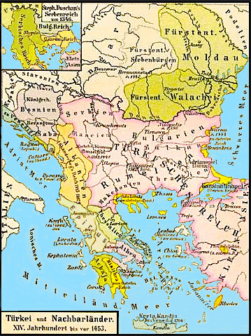 Balkans until 1453, part of "Karte zur Geschichte des Europäischen Türkei" in: leaf 15, Meyers Konversationslexikon, 1888